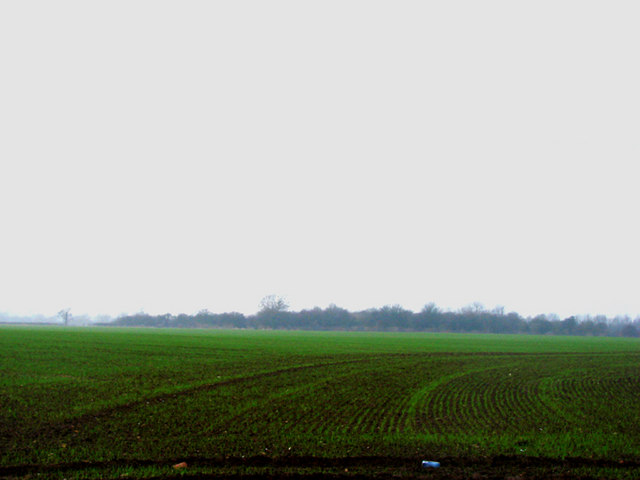 All that remains of a Motte and Bailey Castle, Scawthorpe.